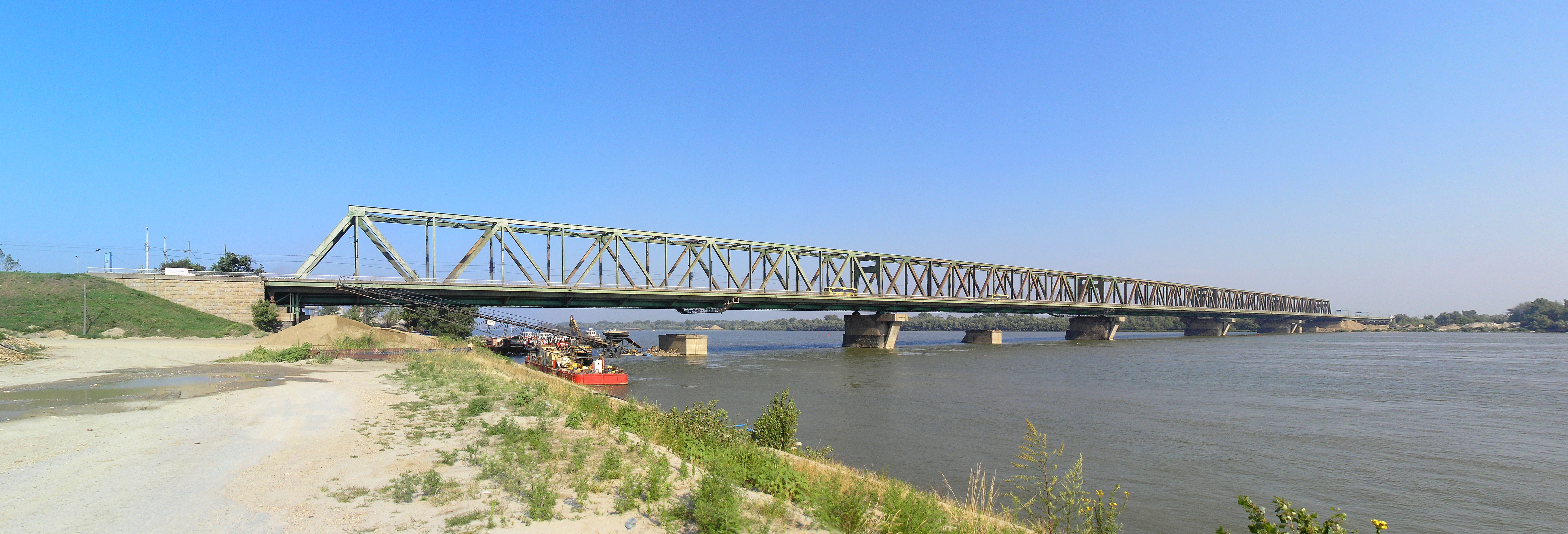 Panorama of Pančevo bridge over Danube, in Belgrade, Serbia. The panorama features upstream view from the right Danube riverside.